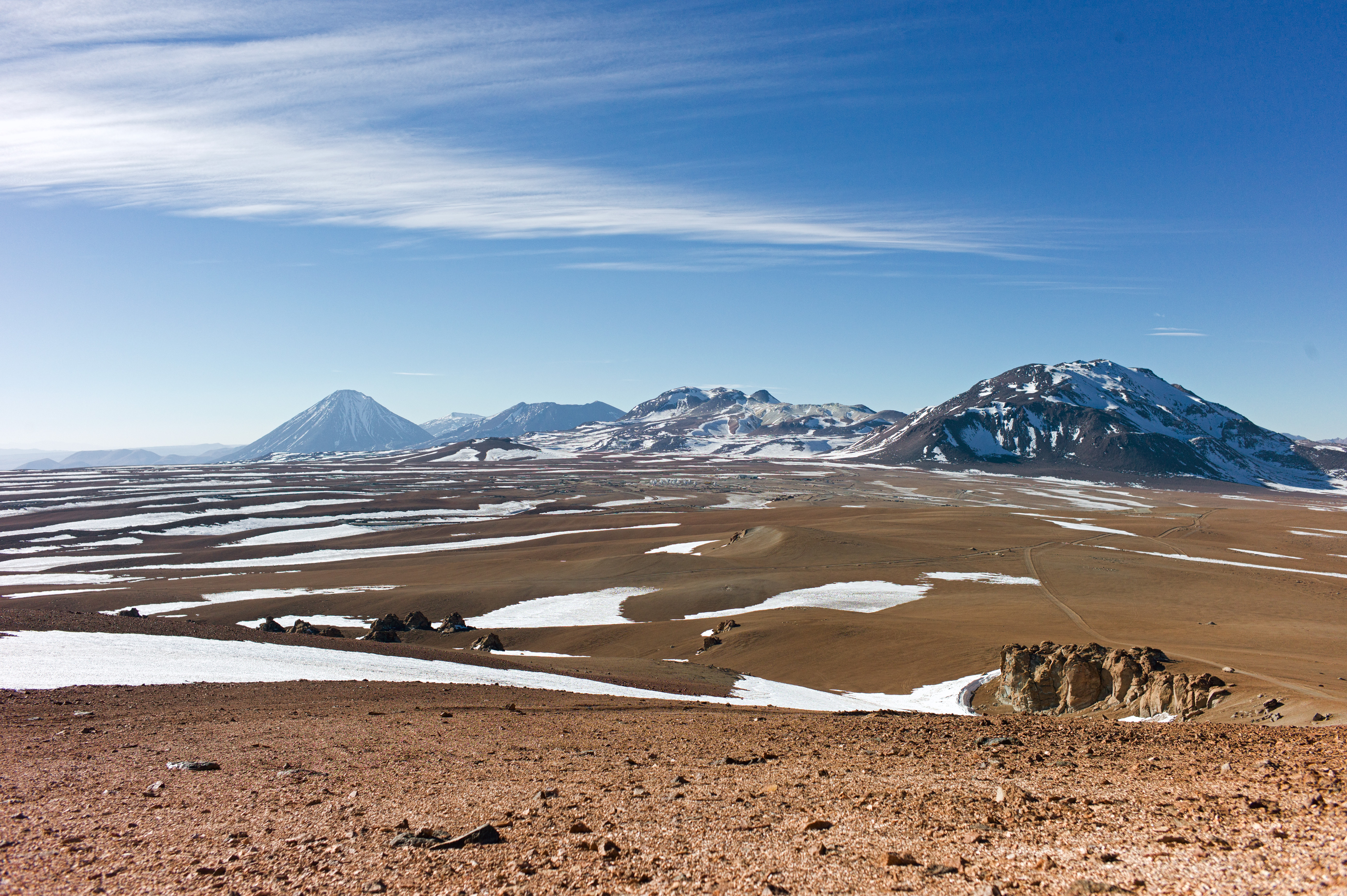 At first glance, this panoramic view shows the mountainous scenery of Chile’s Chajnantor Plateau, with snow and ice scattered over the barren terrain. The main peaks from right to left are Cerro Chajnantor, Cerro Toco, Juriques, and the distinctive conical volcano Licancabur (see potw1240) — impressive enough! However, the true stars of the picture are the tiny, barely visible structures in the very centre of the image — perceptible if you squint hard enough. These structures, dwarfed by their mountainous neighbours, are the antennas that form the Atacama Large Millimeter/submillimeter Array (ALMA), a large radio telescope. While it may appear minute in this panorama, the array is actually composed of a collection of large 12- and 7-metre-diameter antennas, and when it’s complete, there will be a total of 66 of them, spread over distances of up to 16 kilometres across the plateau. Construction work for ALMA is expected to finish in 2013, but the telescope has begun the initial phase of Early Science observations, already returning incredible results (see for example eso1239). Since this photograph was taken, many more antennas have joined the array on the plateau. ALMA, an international astronomy facility, is a partnership of Europe, North America and East Asia in cooperation with the Republic of Chile. ALMA construction and operations are led on behalf of Europe by ESO, on behalf of North America by the National Radio Astronomy Observatory (NRAO), and on behalf of East Asia by the National Astronomical Observatory of Japan (NAOJ). The Joint ALMA Observatory (JAO) provides the unified leadership and management of the construction, commissioning and operation of ALMA.